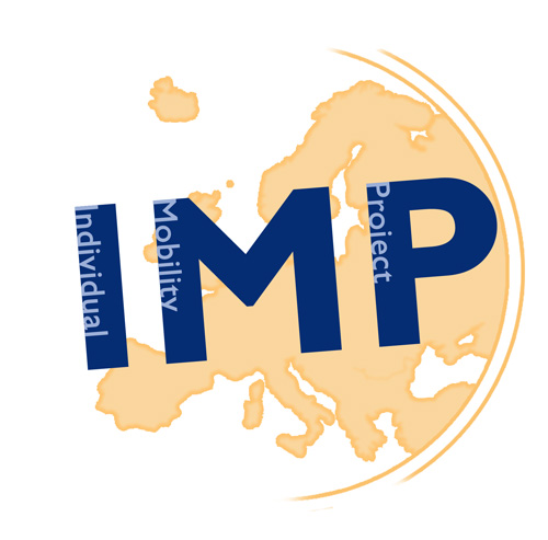 Individual Mobility Project logo